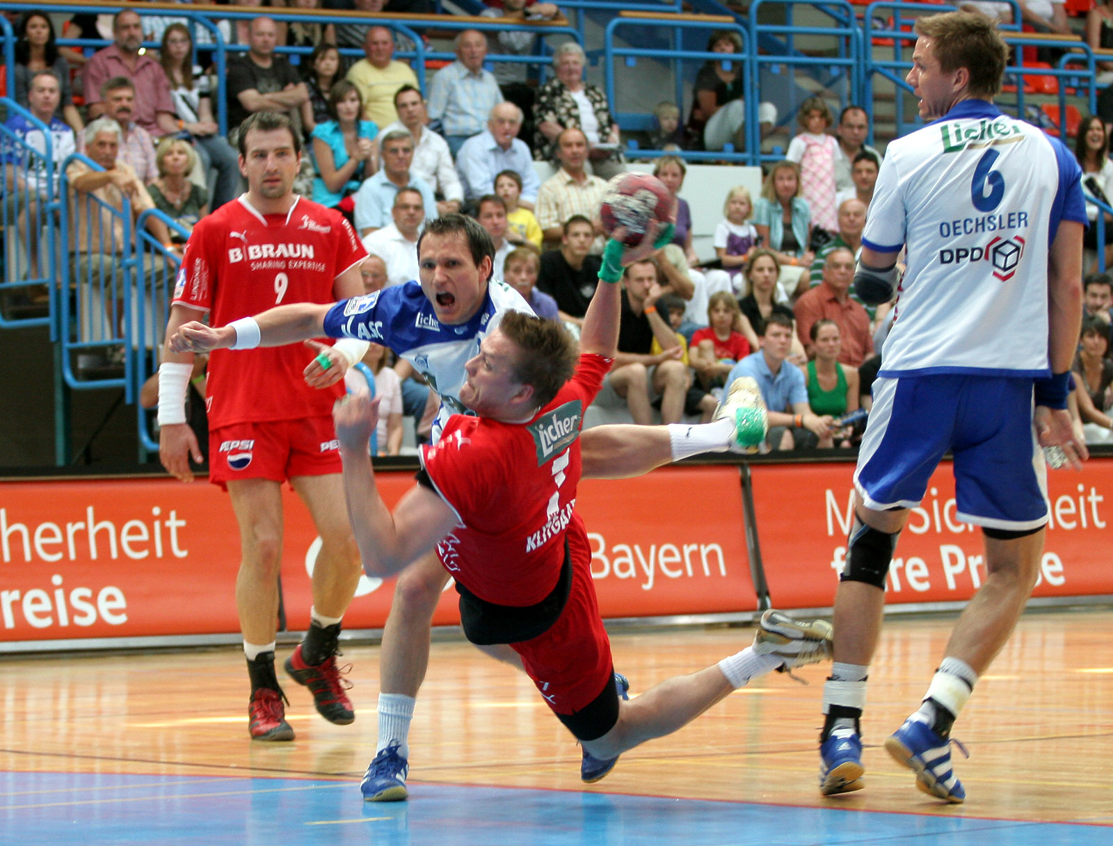 Thomas Klitgaard, handball player from Denmark, playing for MT Melsungen, on May 23rd 2009 in Aschaffenburg (Germany) during the game TV Großwallstadt vers. MT Melsungen.